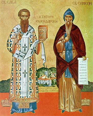 Serbian Orthodox icon of St. Sava and his father St. Simeon with Hilandar Monastery, Mt. Athos, in the background.